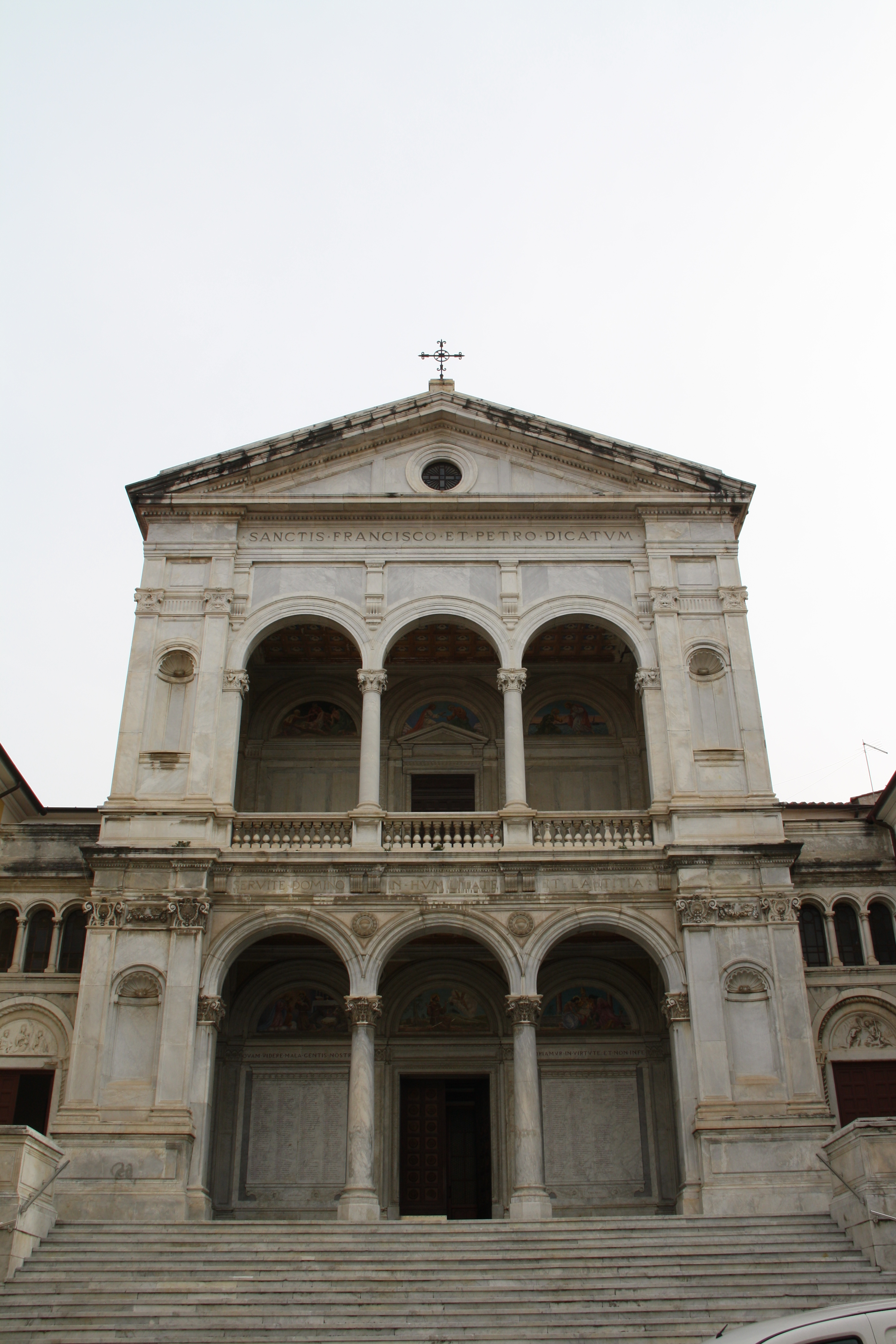 Italy, Tuscany, Massa, St. Francis Cathedral. The church was built on a previous franciscan cloister and was sacred in 1389. It was elevated to Cathedral in the early 1800s when by the will of Elisa Baciocchi, Napoleon’ sister then Governor of the Republic of Lucca, the previous cathedral was demolished in order to enlarge “Piazza Aranci”. The façade was rebuilt in 1936 on plan of Cesario Fellini. The interior has a nave with two Chaples on the right side: the Ducal Chapel dedicated to the Blessed Sacrament and the Stigmas Chapel. Beside the main altar are the left altar with a wooden Crucifix work of the 16th century and the right altar dedicated to the Blessed Virgin of the Rosary, the marble altars are by Bergamini.